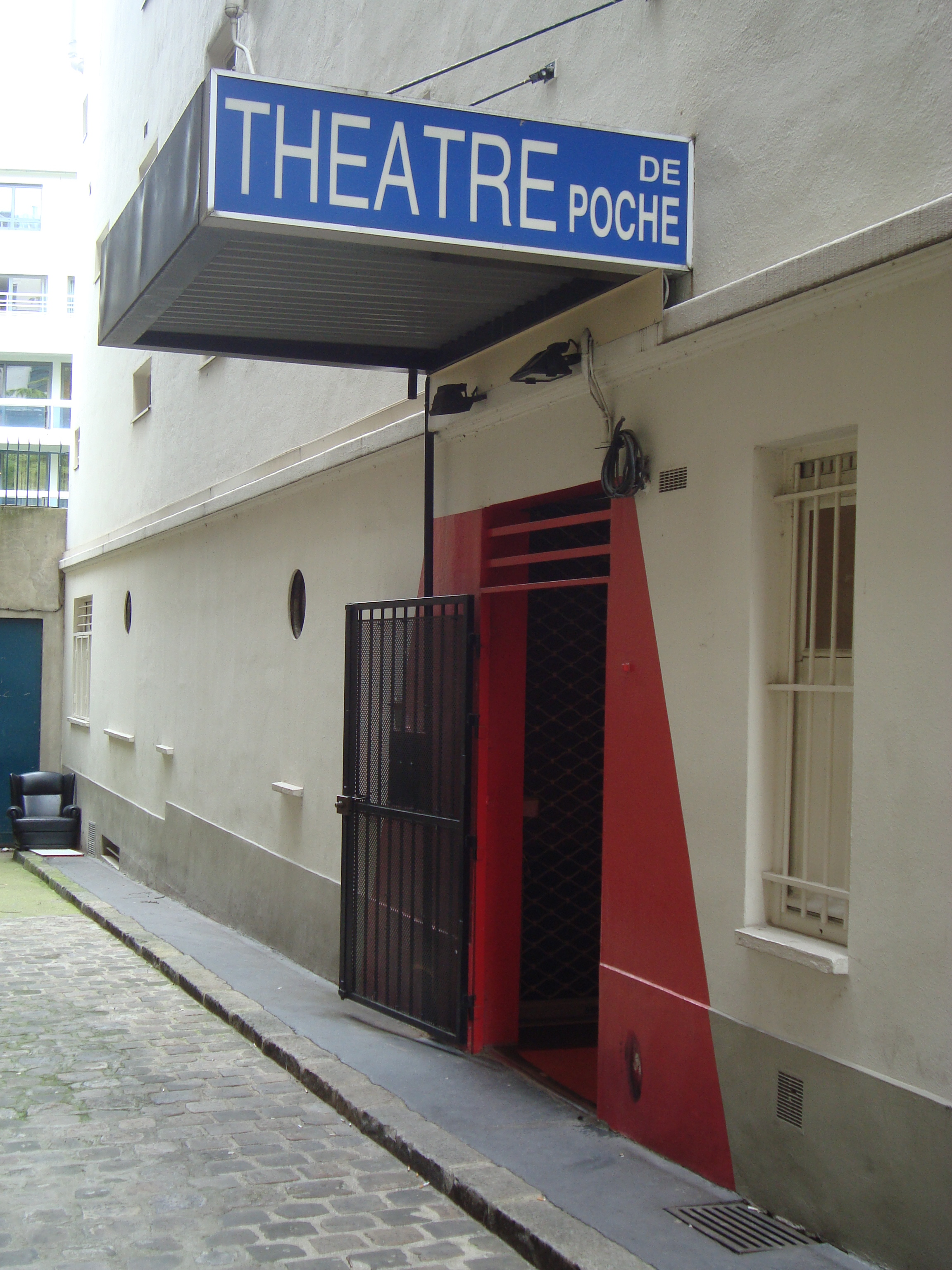 The théâtre de Poche Montparnasse, boulevard du Montparnasse in Paris